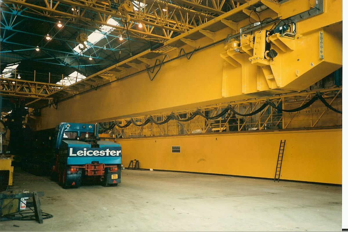 Crane manufactured by Butterley Engineering being loaded for road transport.